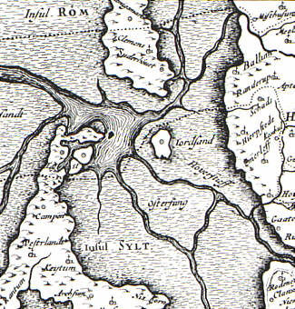 map of Jordsand (Denmark) and environs from 1634